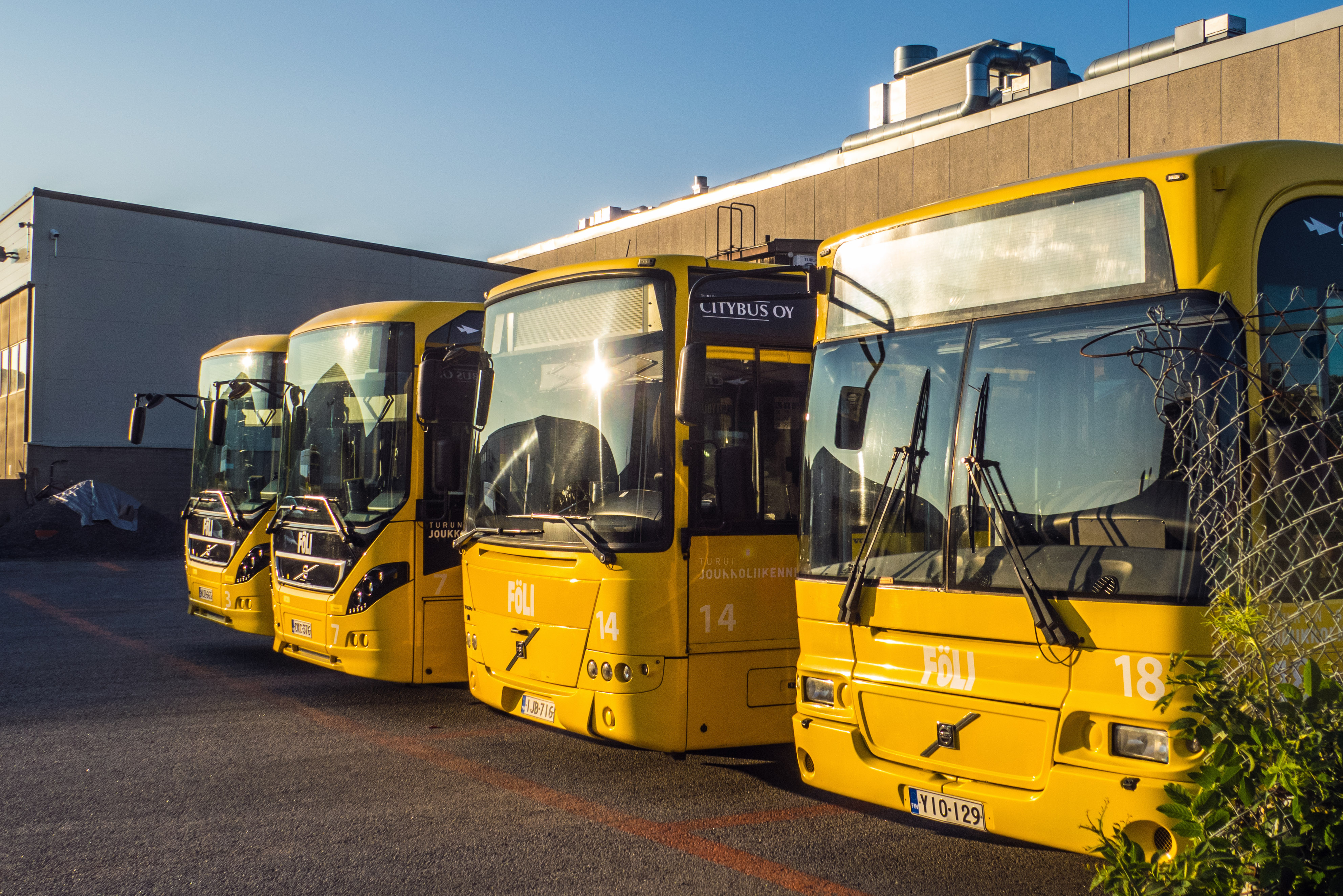 Citybus is one of the operators of the Föli bus system in Turku, Finland. The picture shows their depot on Ruissalontie.